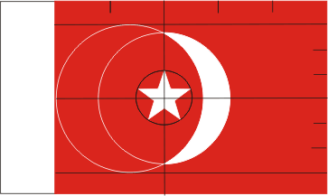 model de construcció de la bandera; Construction sheet of flag of Umm Al Qiwan